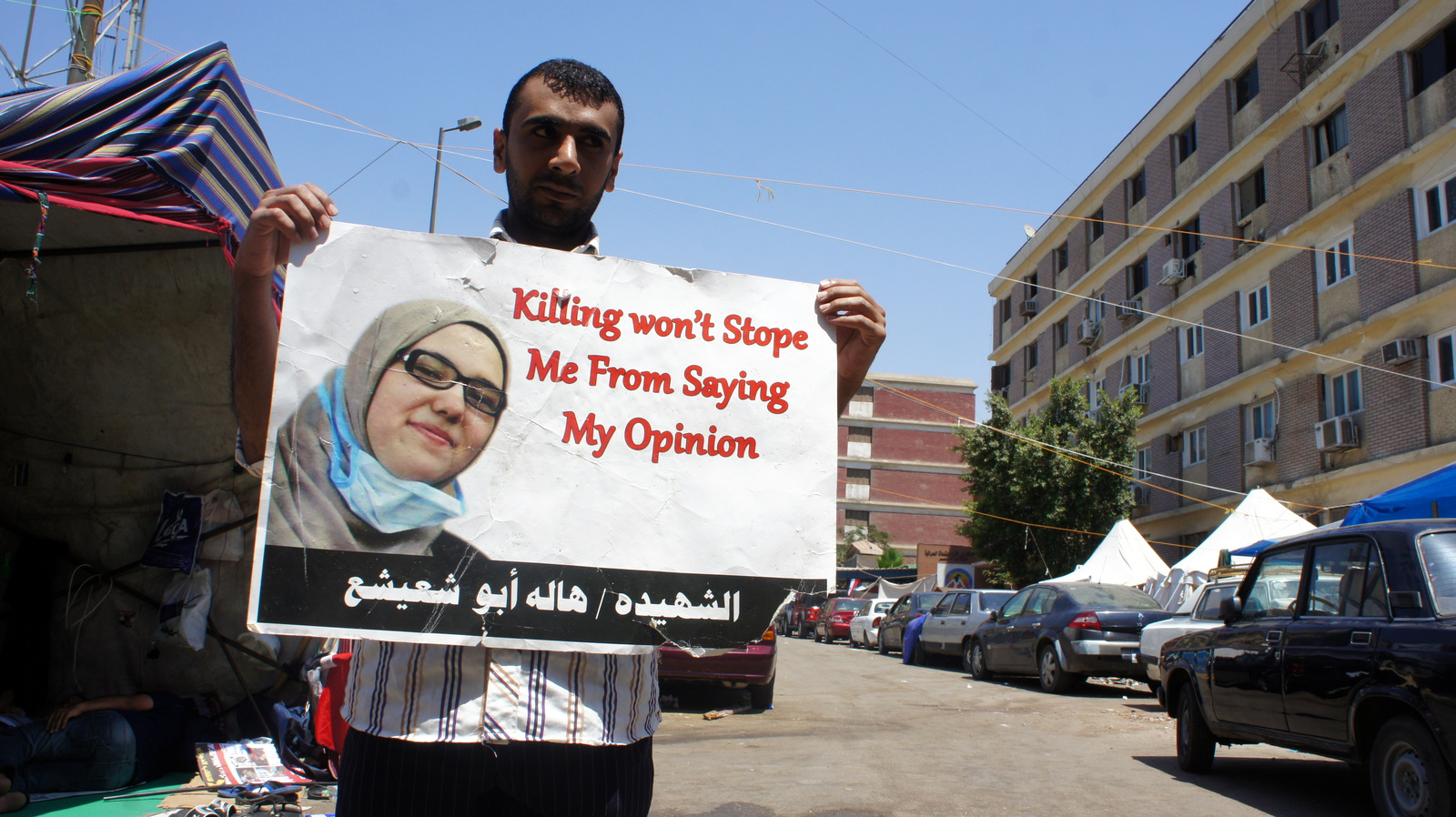 Original description: "A protester vows to carry on a sit-in by Morsi supporters after deadly clashes Saturday in Cairo, July 27, 2013, (Elizabeth Arrott/VOA)."